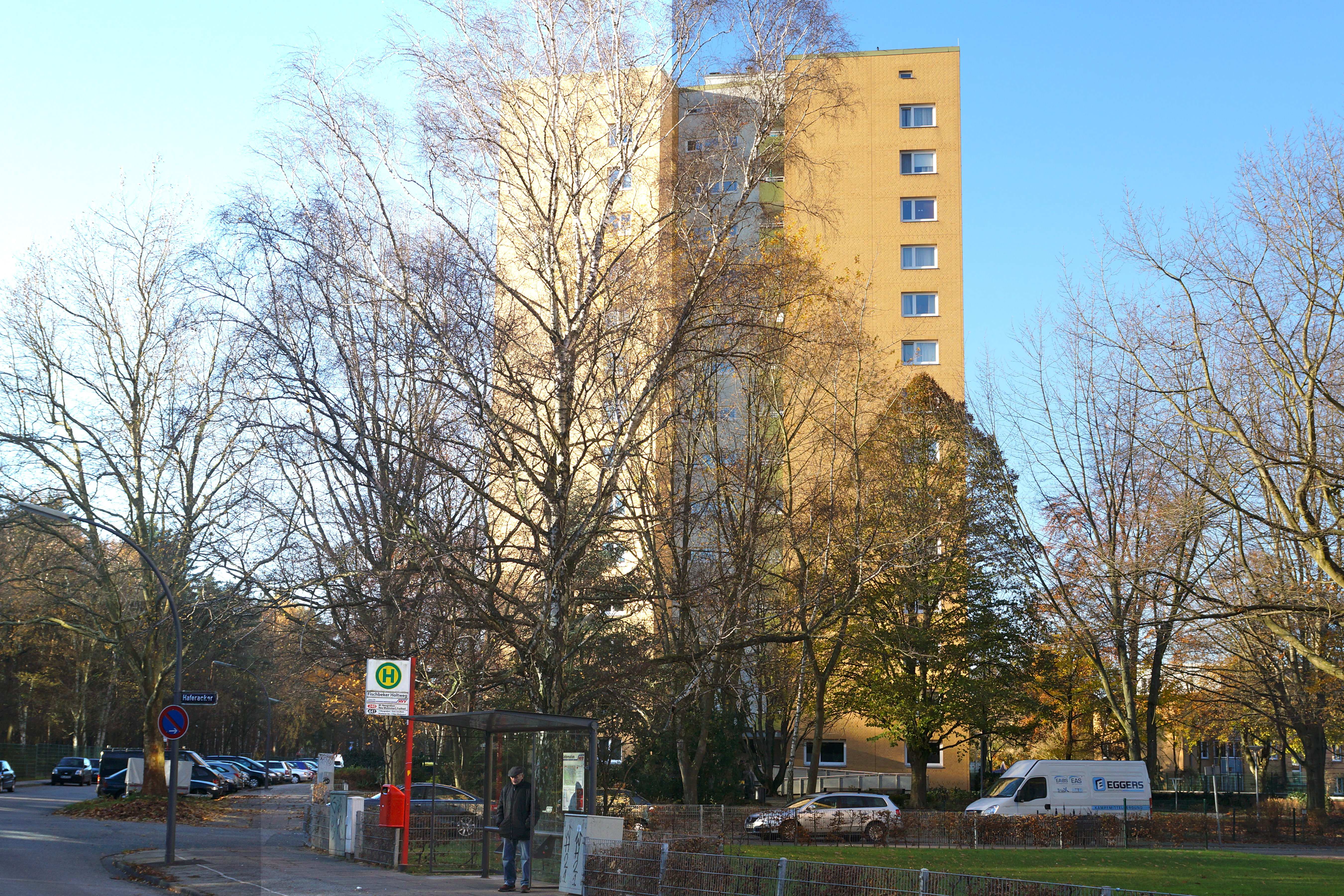 Hamburg (Neugraben-Fischbek), Germany: Towerblock at the Hafenacker